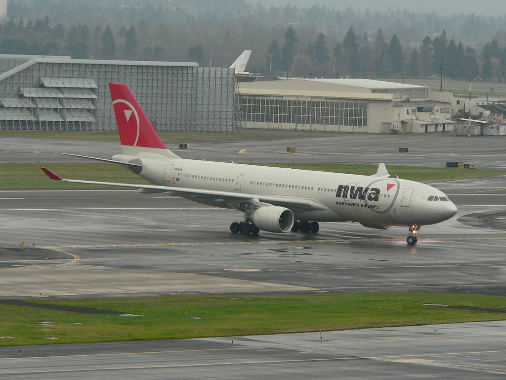 Northwest Airlines Airbus A330